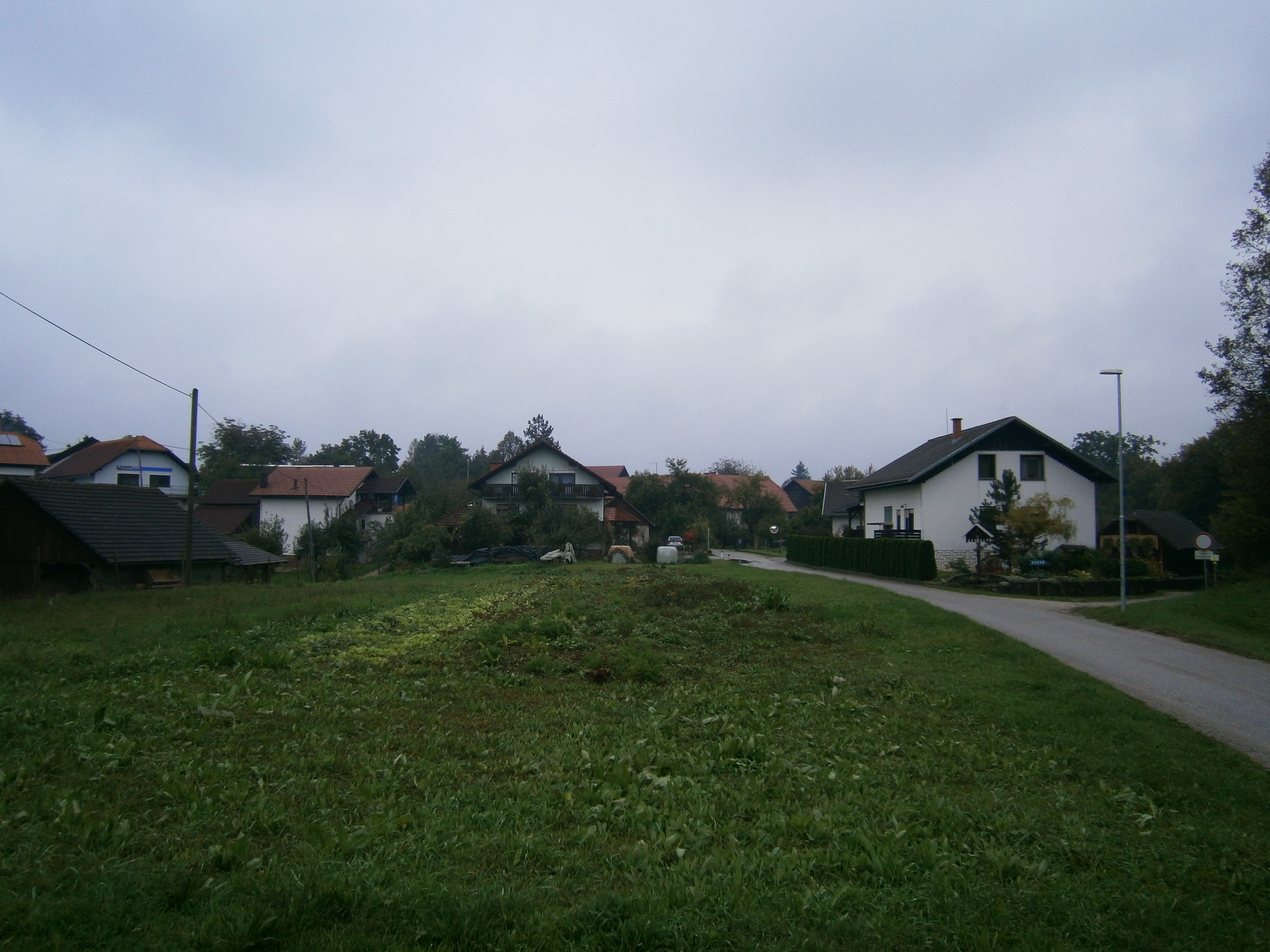 Krupa village (entering from the direction of Stranska vas)